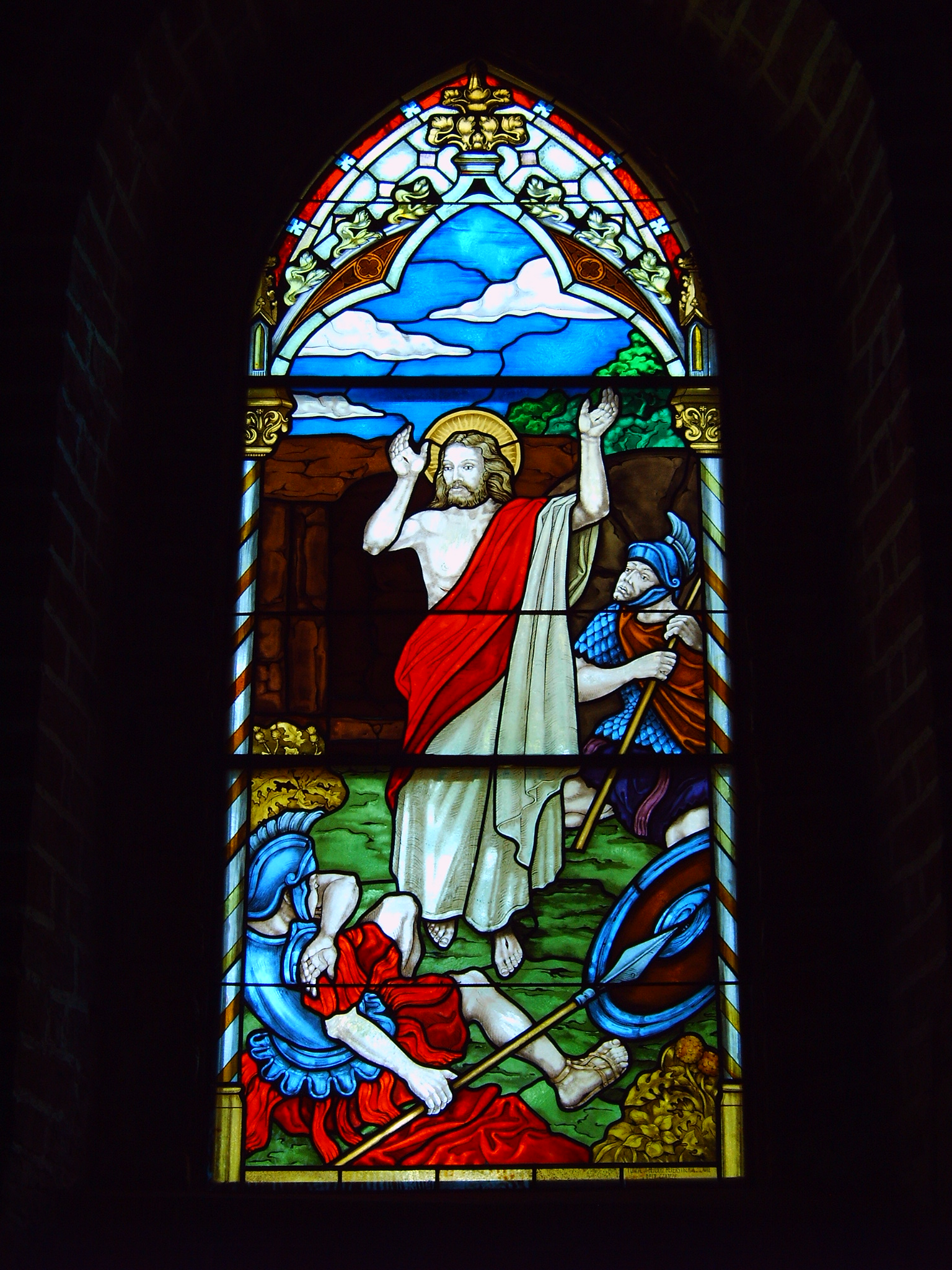 Poland, Mielno, church, stained glass - Resurrection